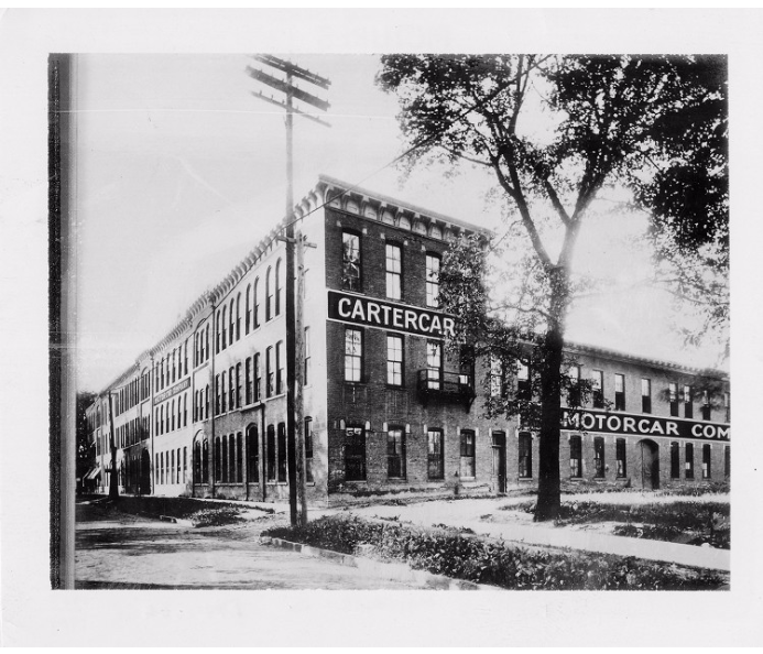 4.25x5.25 black and white photograph of the Carter Car Motorcar Company factory located at 220-230 First Street